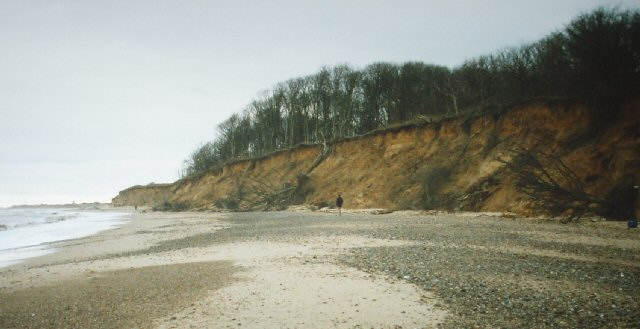 Cliffs at Easton Wood, near Covehithe, Suffolk. One of the fastest eroding parts of the coast. Easton Wood teeters on the top of the crumbling sand cliffs, whilst the North Sea prepares to attack once again. Several large trees have recently fallen down the cliff and wait to be washed away by the sea. Viewed looking S towards Southwold.